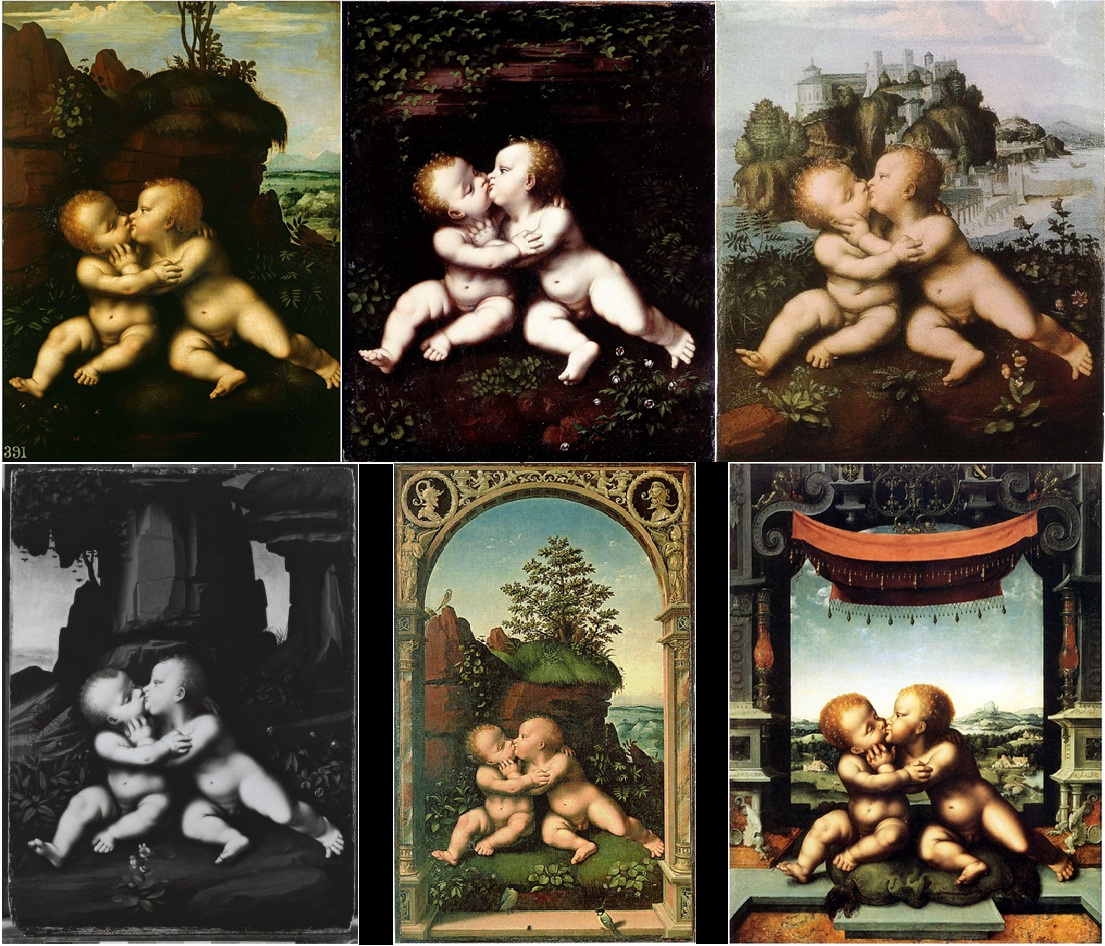 Holy Infants after Leonardo da Vinci. Various representations.